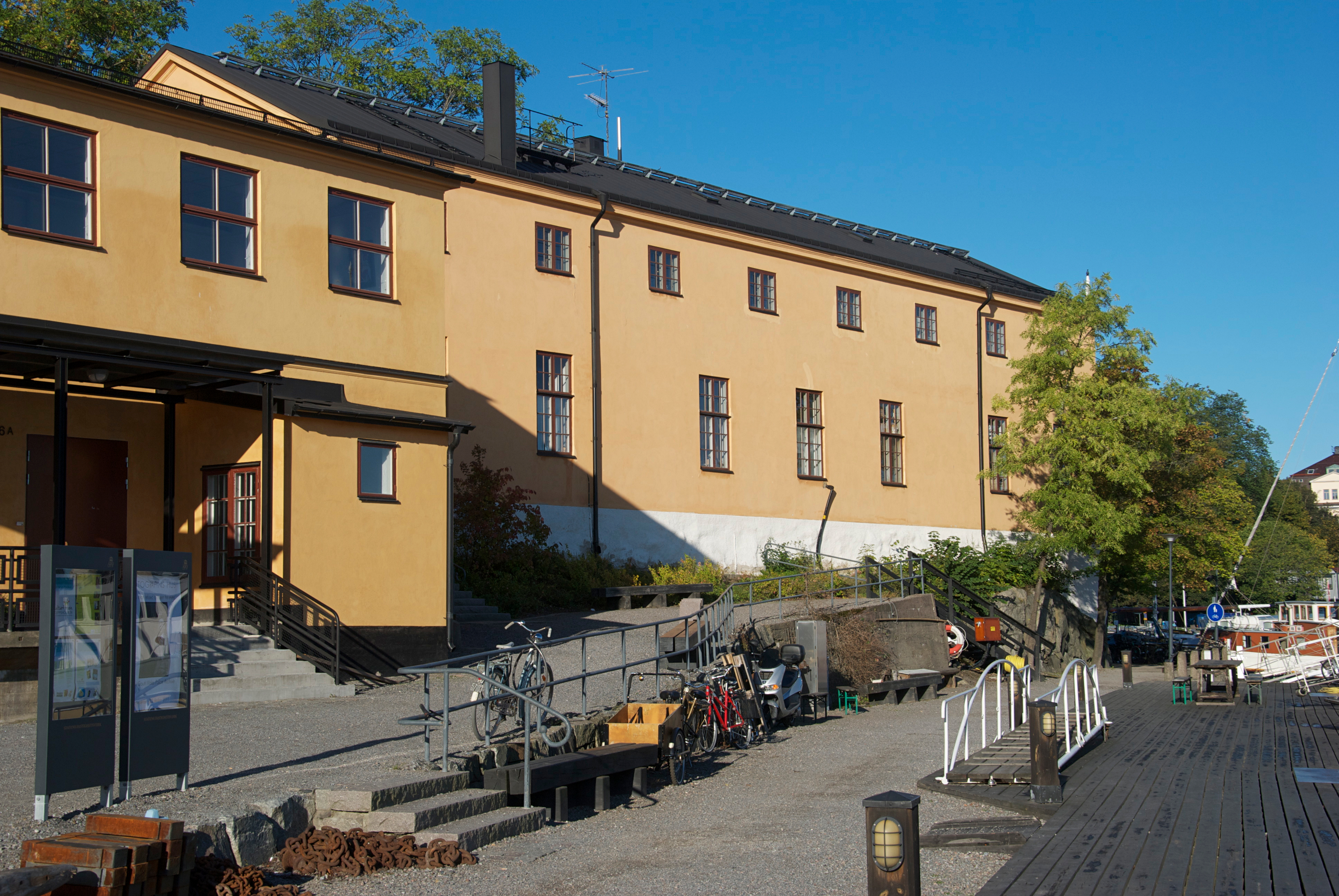 STOCKHOLM SKEPPSHOLMEN 1:1 - husnr 1 RÅSEGLARHUSET